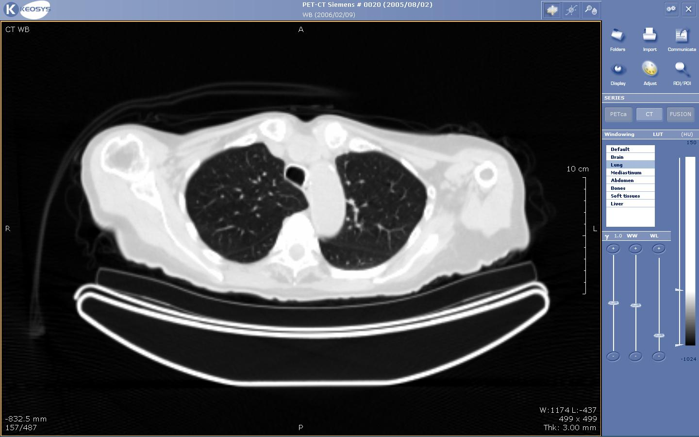 CT viewer chest Keosys